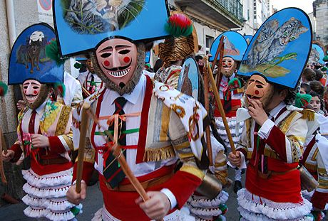 cigarrones del carnaval de verin